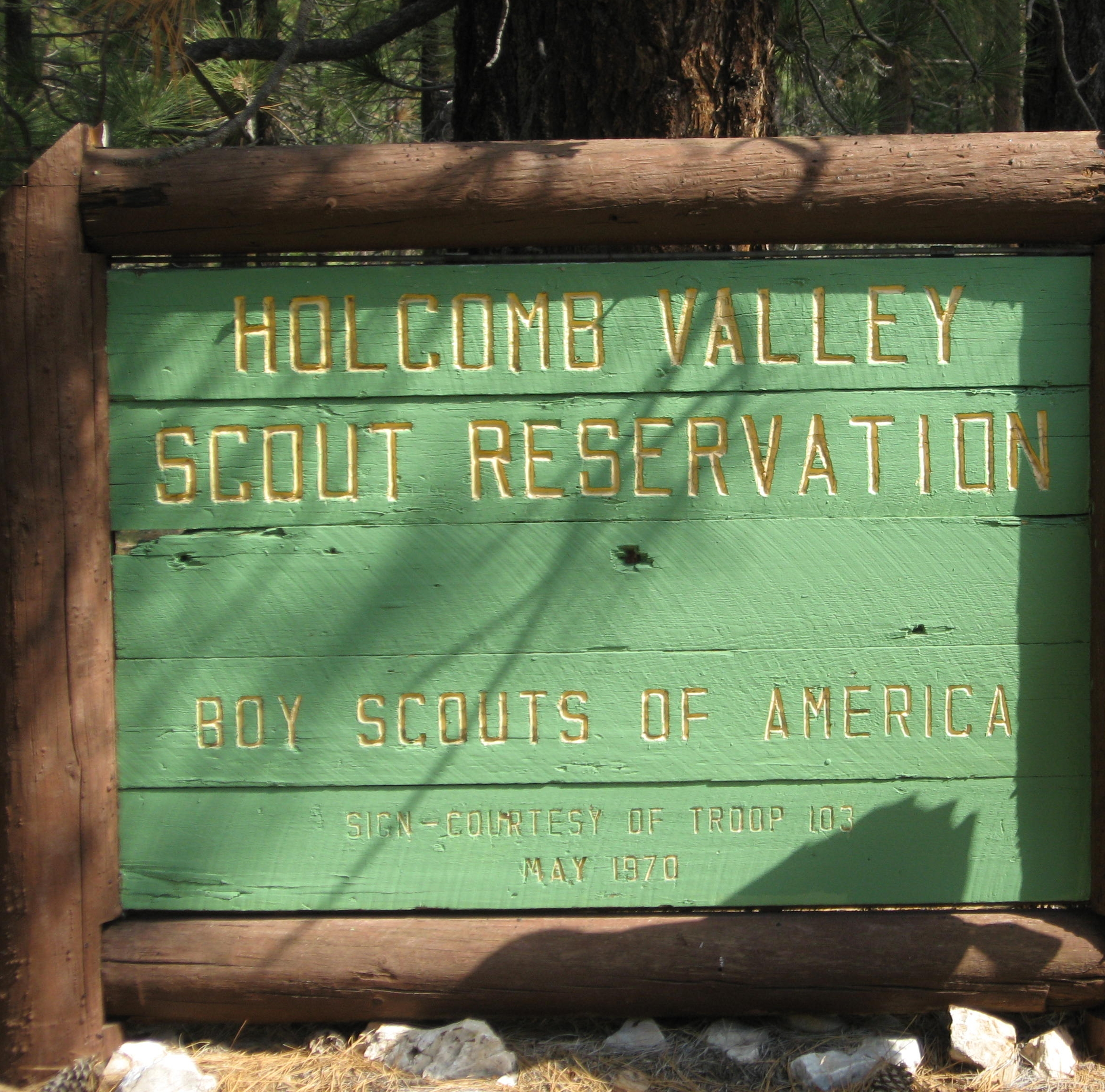 Holcomb Valley Scout Ranch sign in Fawnskin, a camp of the San Gabriel Valley Council